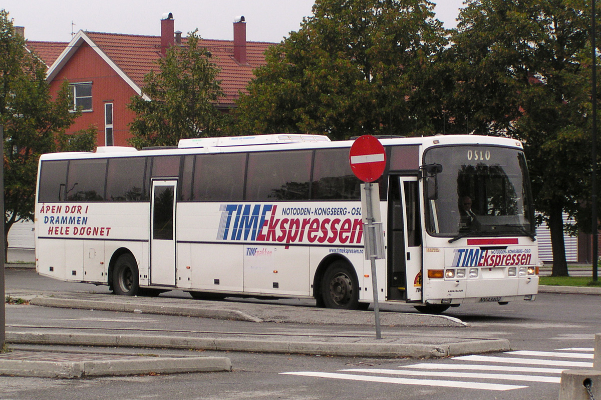 Volvo B10M / Vest Ambassadør 340 in the original livery of TIMEkspressen.